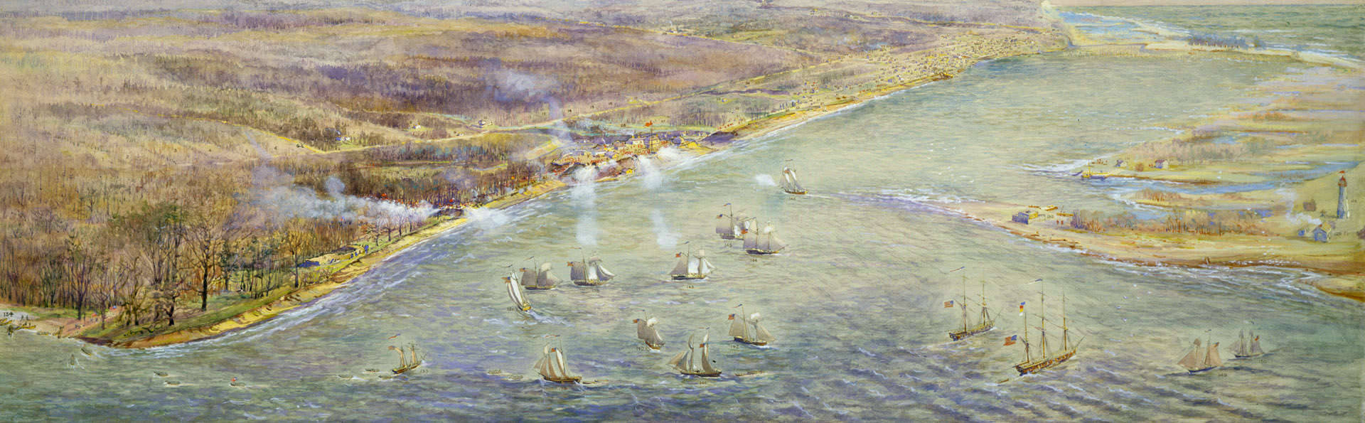 Bird’s eye view of the arrival of the American fleet prior to the capture of York, 27 April 1813. The future site of Toronto, Ontario, Canada. Watercolour, tempera & pen & ink.